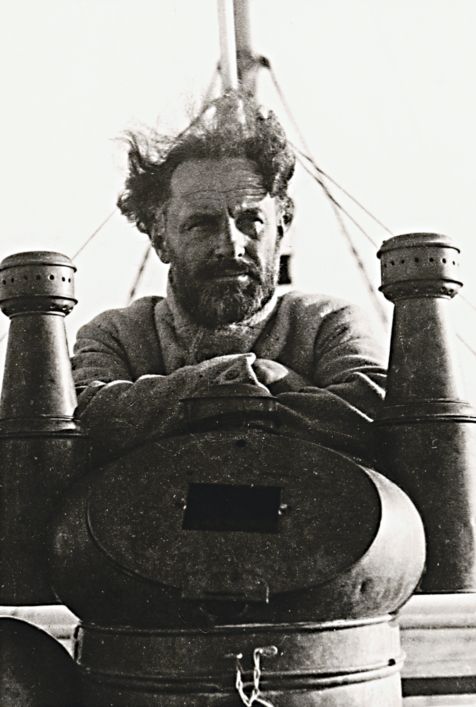 The German film maker Arnold Fanck (1889–1974) aboard a ship, probably when filming on different sets in Patagonia, Tierra del Fuego and the Juan Fernández Islands for his upcoming movie A German Robinson Crusoe (1940) whose raw material was not accepted by Joseph Goebbels. The chief of the Nazi propaganda regarded the figure of Robinson as antisocial and in so far as an unwanted role model in Nazi ideology which was referring to a so called „Volksgemeinschaft“ (= people's community). Due to his orders the filmed material was cut to a profane propaganda movie for the German Navy.